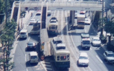 Nagasaki Daigaku-mae Tram Stop before the removal of the footbridge